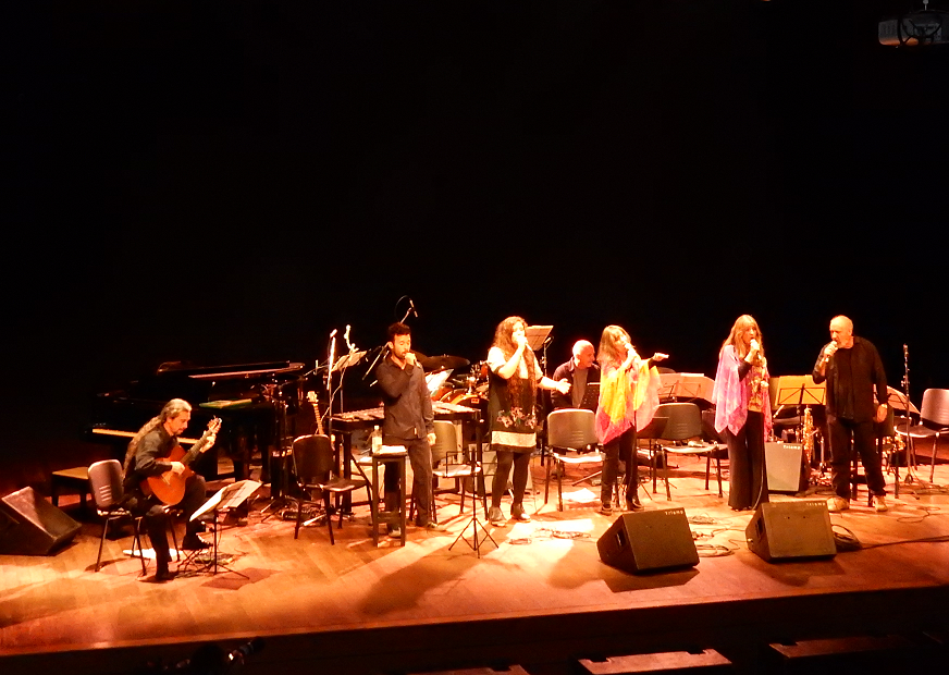 Madrigal con su formación actual, en el Centro Cultural Príncipe de Asturias, Rosario, Santa Fe (2016).